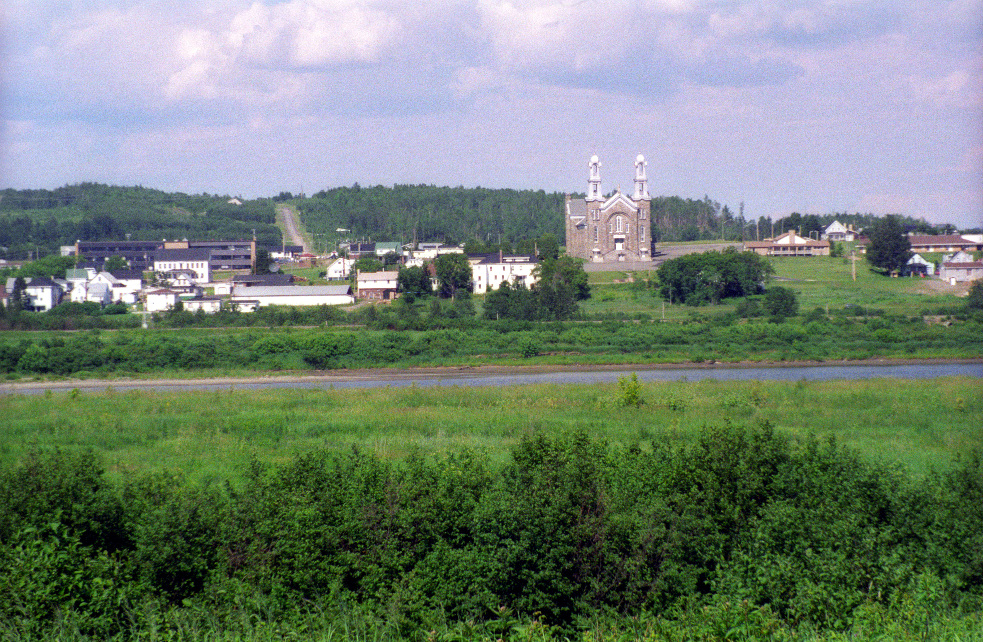 Sainte-Anne-de-Madawaska, New Brunswick, as seen from the United States.